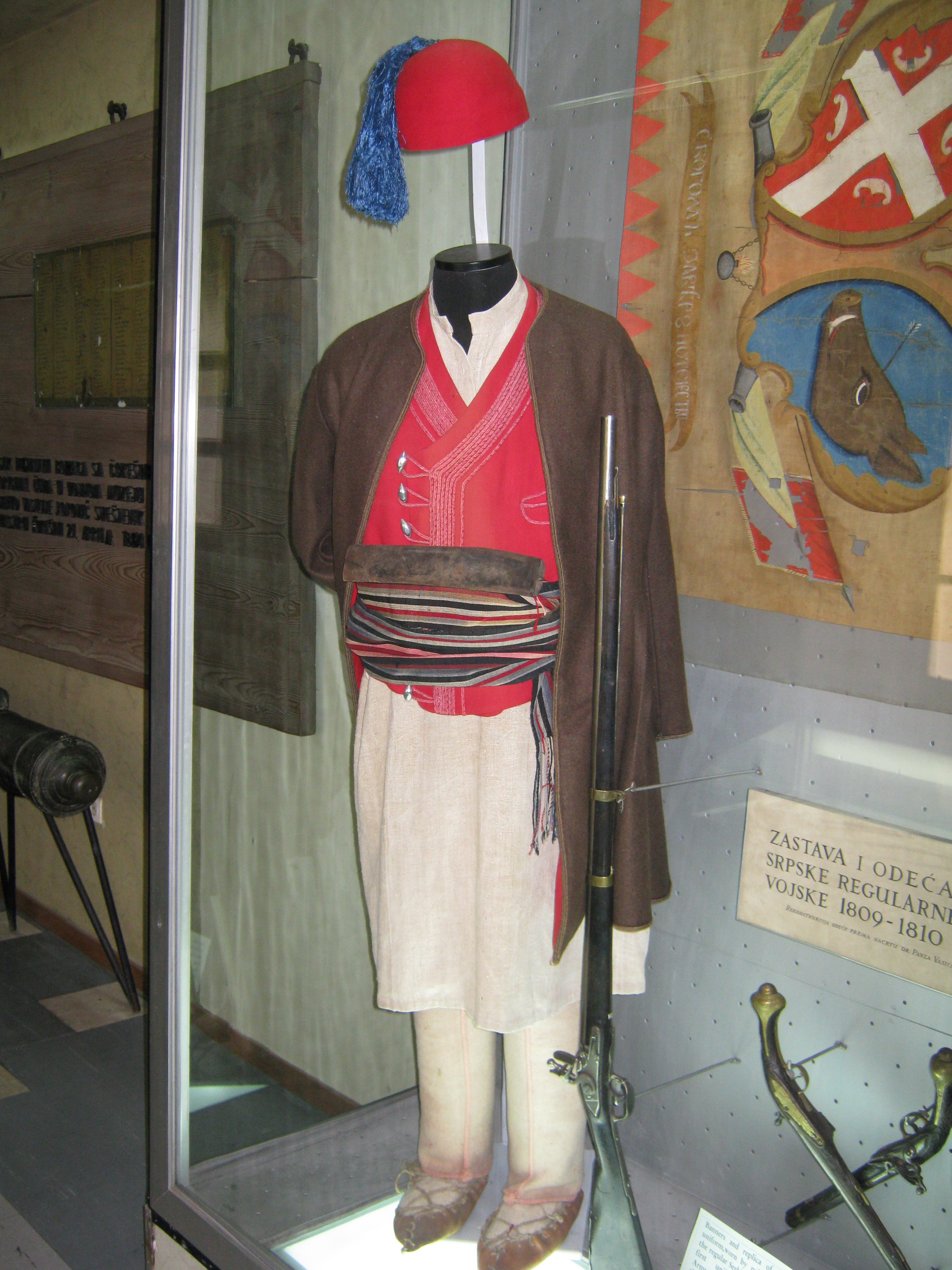 Uniform and weapons, which is belongs to Regular soldier of Serbian Uprising Army from 1809/10. Photo taken in:Military museum Belgrade